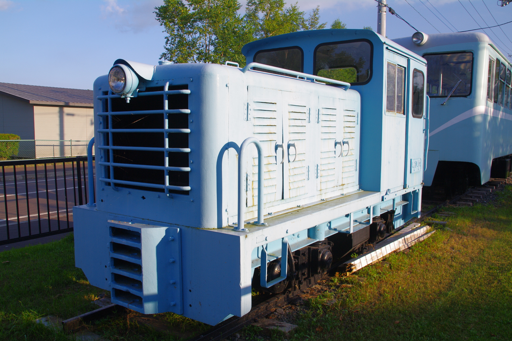 Diesel locomotive of Tsurui Son-ei Kido (Tsurui Municipal Railway) preserved in Tsurui Village, Hokkaido, Japan